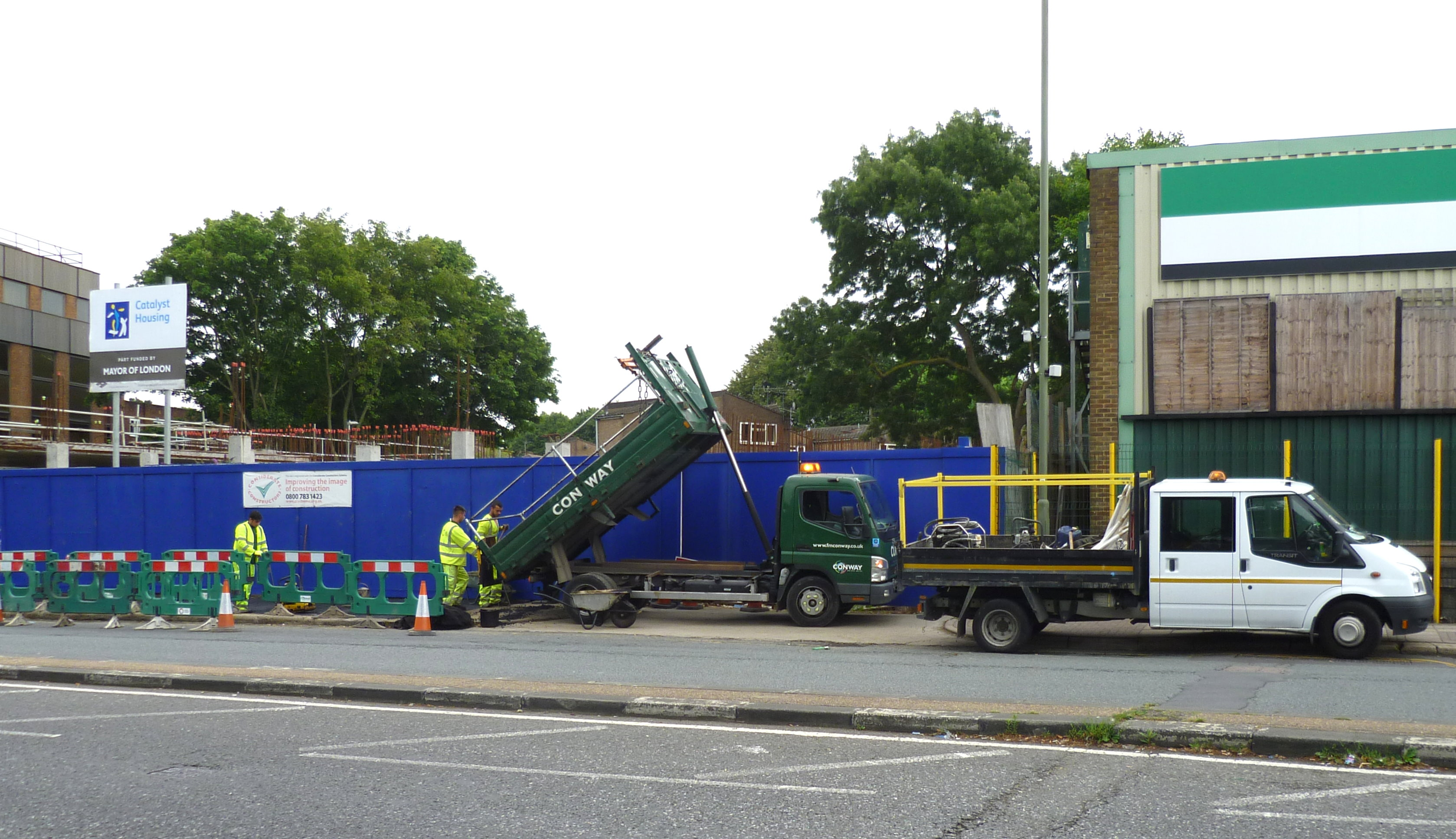 Conway workers 14 July 2015.